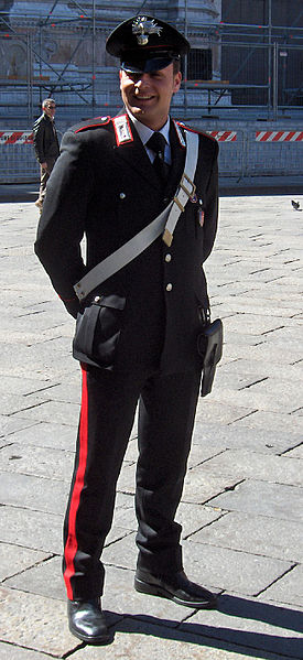 An ordinary uniform worn by a Carabiniere